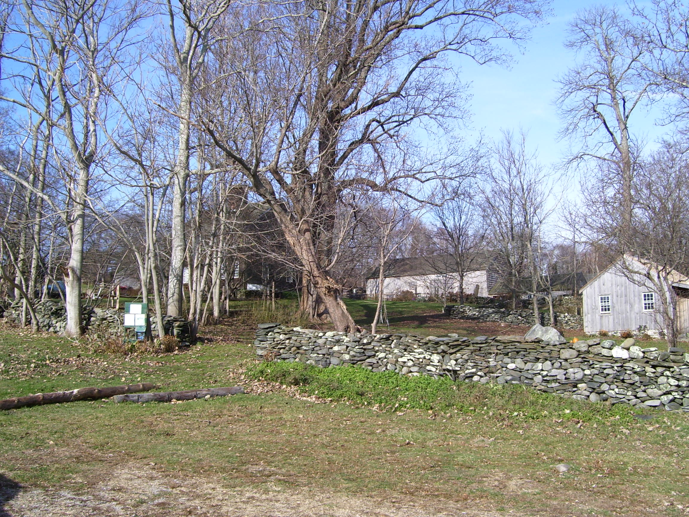 This is my 2008 photo of the Watson Farm in Jamestown, Rhode Island.